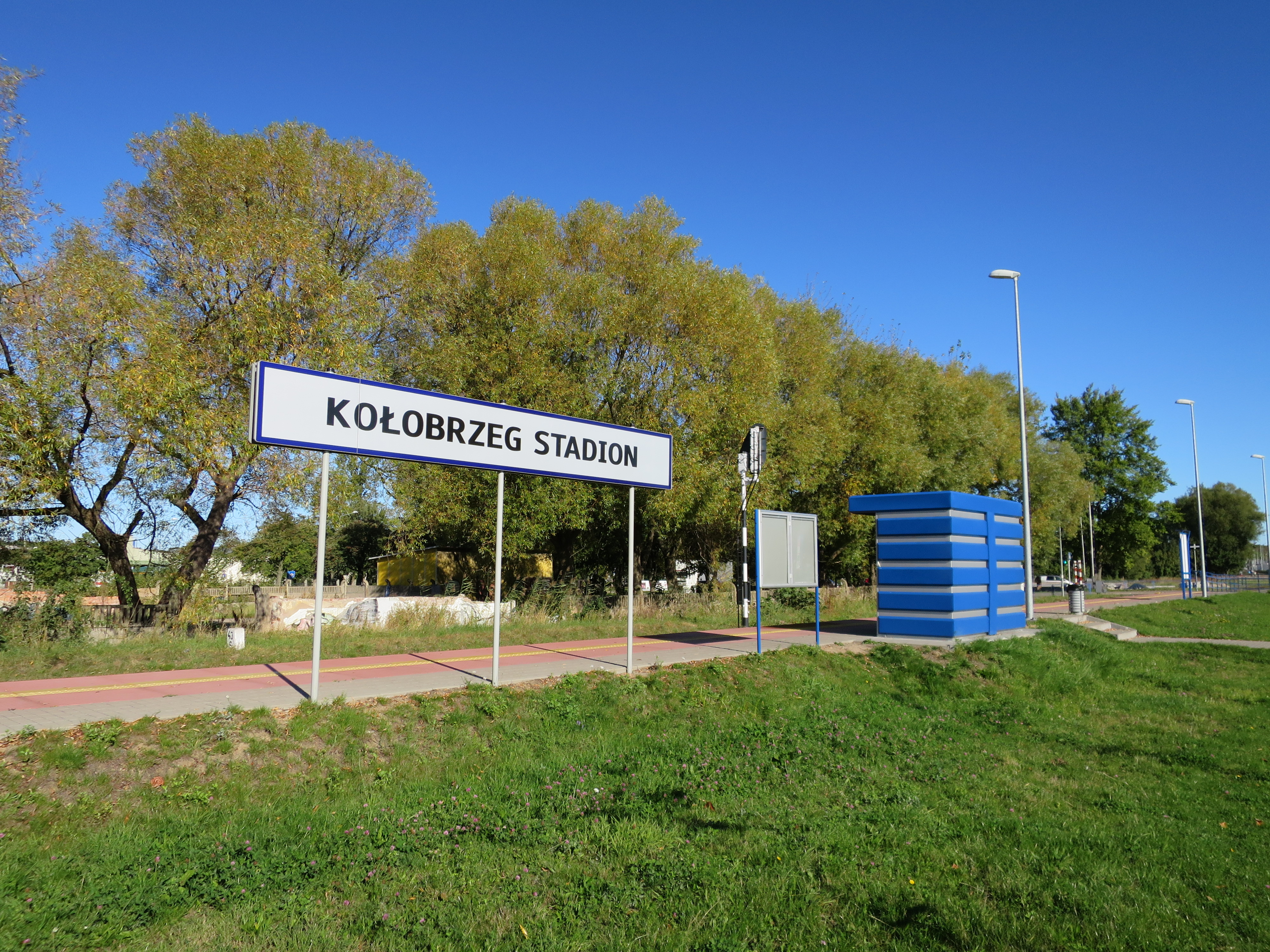 Kołobrzeg Stadion This photo was taken during Railway Wikiexpedition 2015 set up by Wikimedia Polska Association in cooperation with Fundacja Grupy PKP.You can see all photographs in category Wikiekspedycja kolejowa 2015.